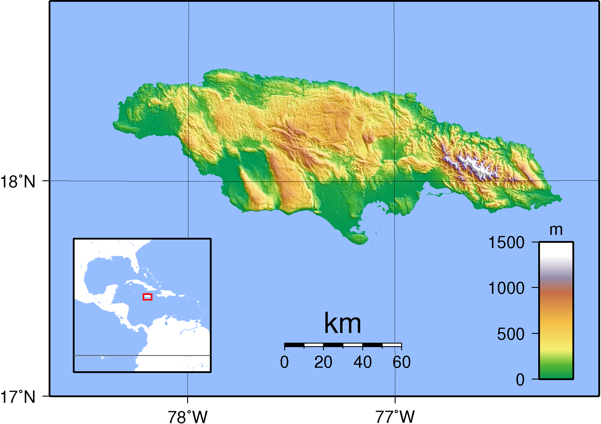 Topographic map of Jamaica. Created with GMT from SRTM data.